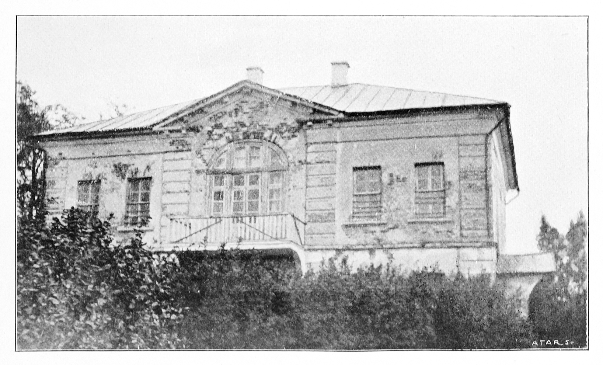 Yasnaya Polyana school. From the French translation of the Complete Works of Tolstoy, volume 14.